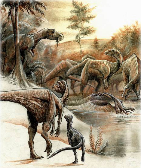 Illustration of life of the Egg Mountain.